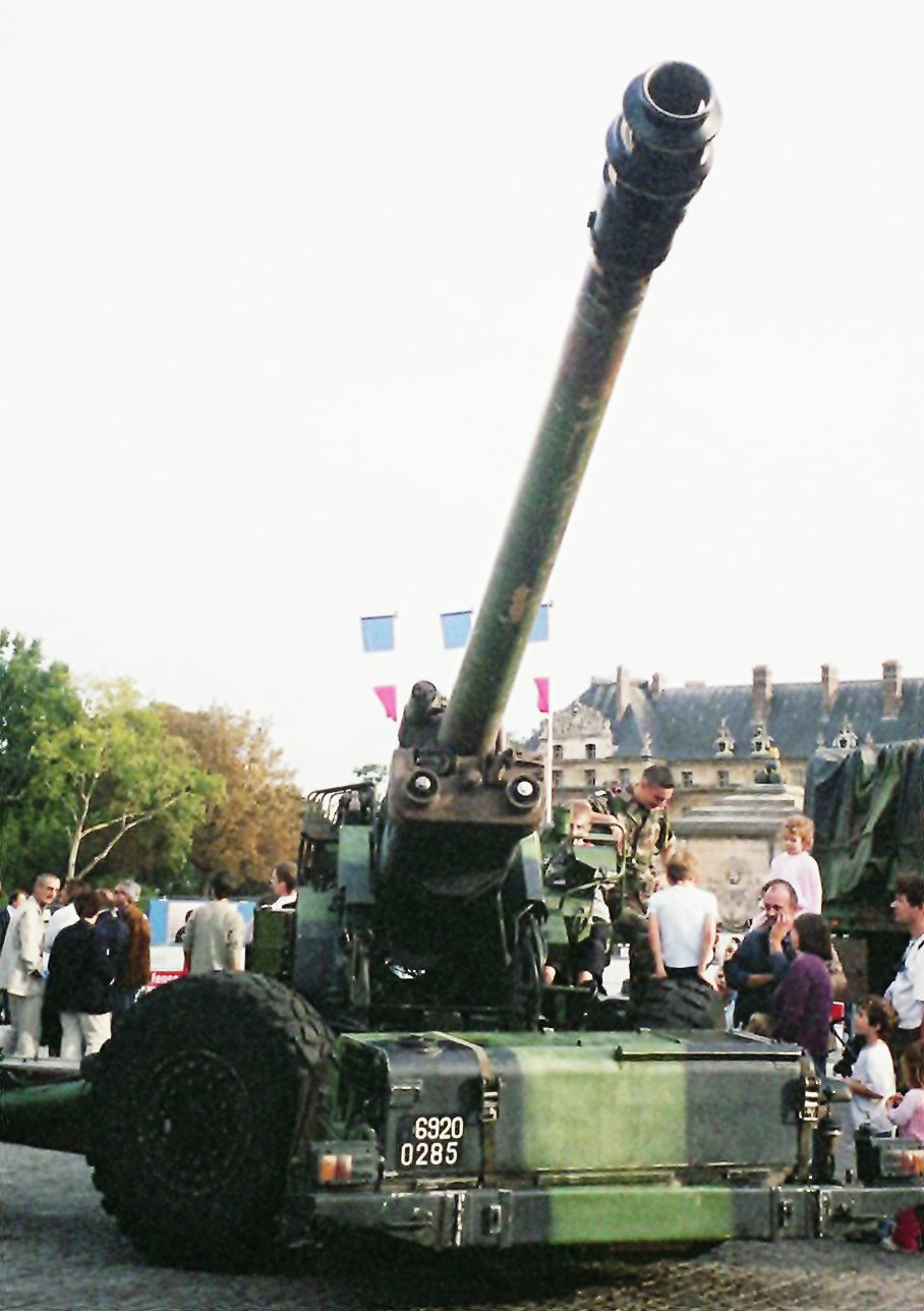 Nation/Defense days, Esplanade des Invalides, Paris, France, September 24-25, 2005